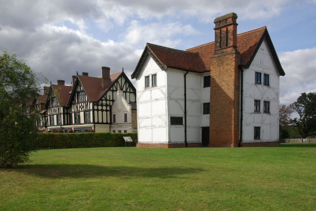 Queen Elizabeth's Hunting Lodge The hunting lodge was built in 1543 for Henry VIII. It was used for royal hunting expeditions allowing deer on Chingford Plain to be shot using crossbows fired from the upper storeys. In the 1990s the building was restored and covered with a white limewash that protects the timbers from insects and the weather. To the left of the Lodge is the Royal Forest, a pub dating from Victorian times.